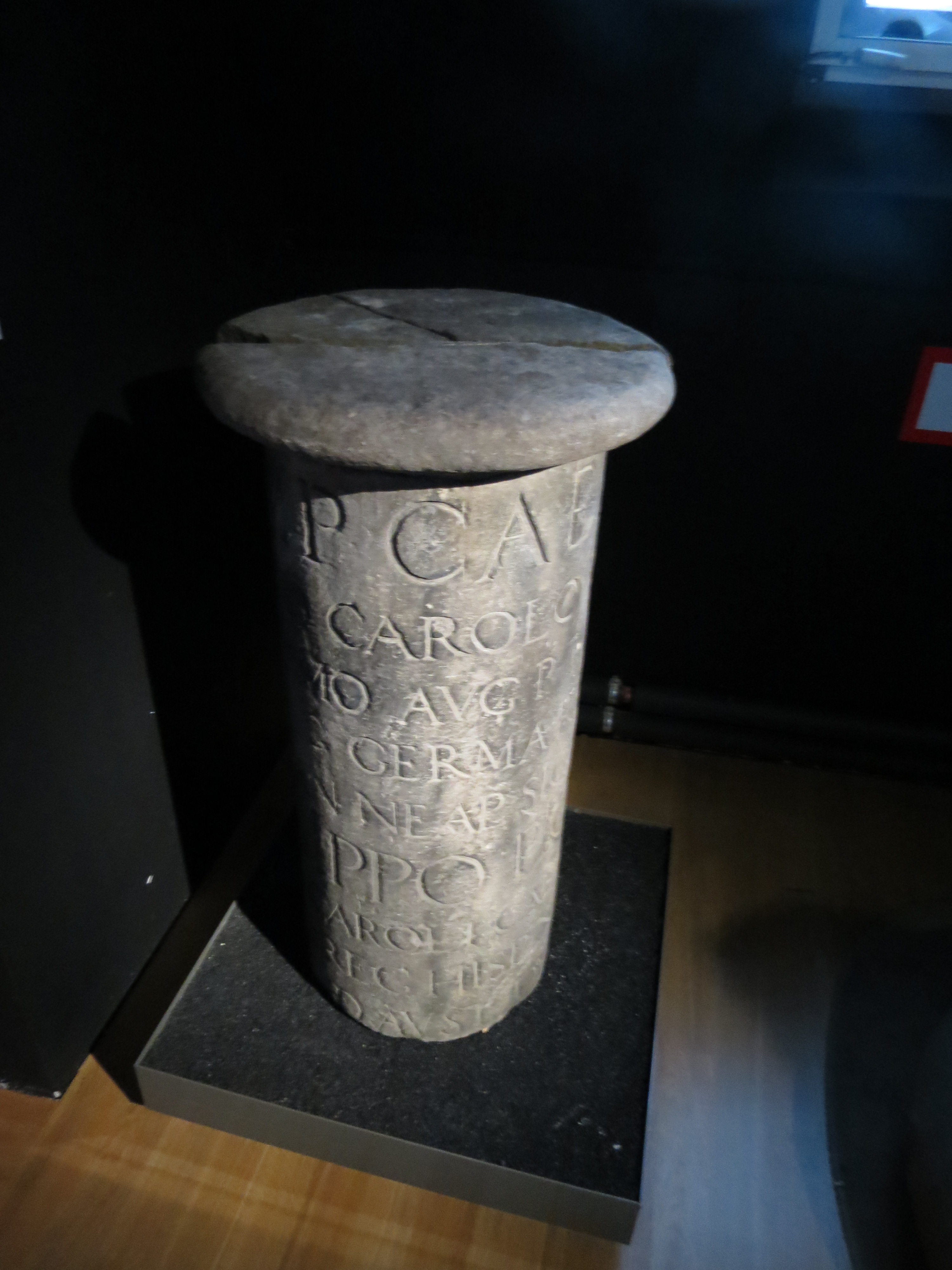 "milestone" of Hypolytus Persijn, created between 1555 and 1558 resembling the roman Milliarium of Monster honoring Charles V and Philip II. Exhibited in Rijksmuseum van Oudheden, Leiden